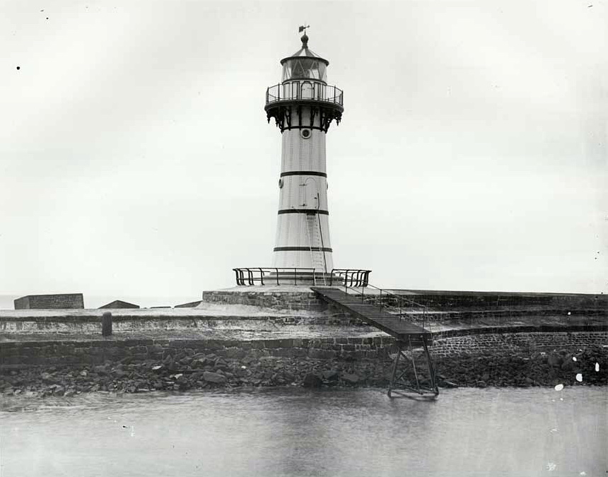 Breakwater Lighthouse, Wollongong, historic view Digital ID: 4481_a026_000251 Rights: We'd love to hear from you if you use our photos. Many other photos in our collection are available to view and browse on our website using Photo Investigator.